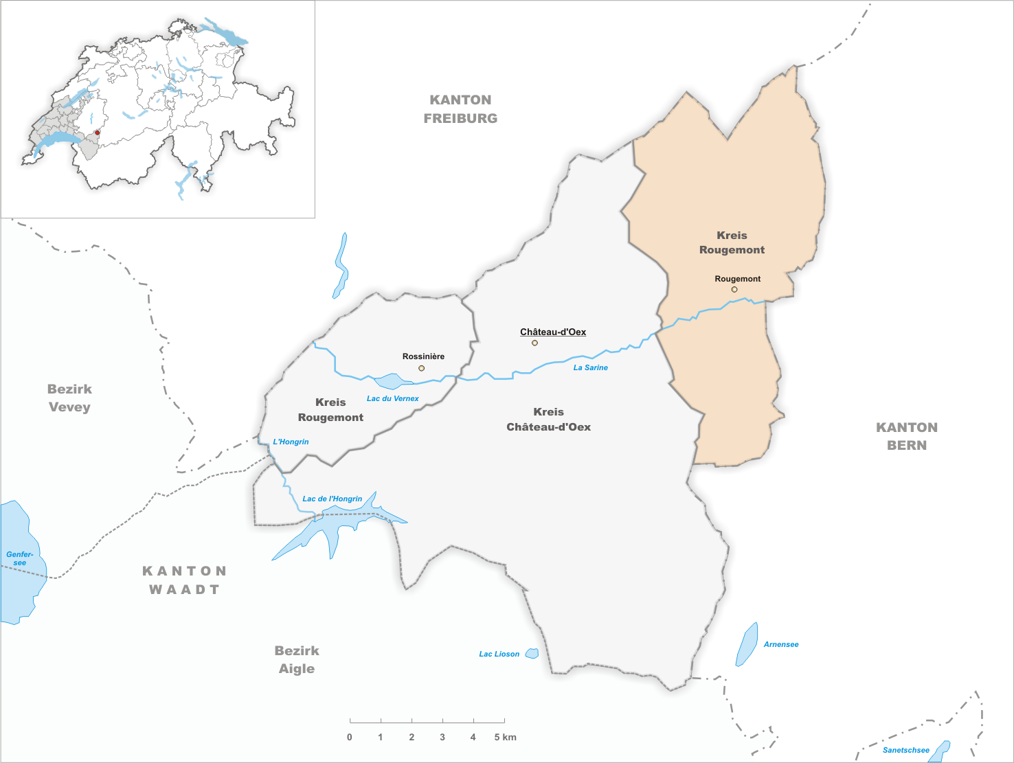 Municipality Rougemont